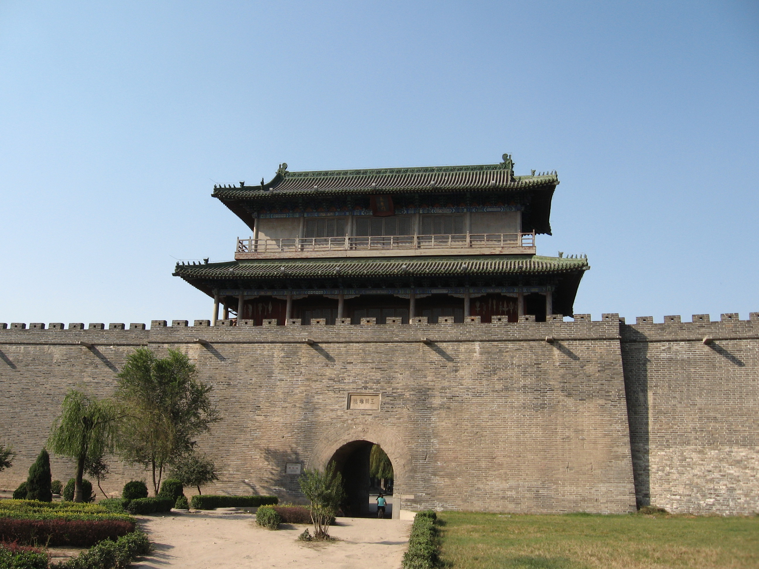 Outer side the southern gate of Zhengding Hebei,China.中国河北省正定县南城门（长乐门）外，原正定府南城门。